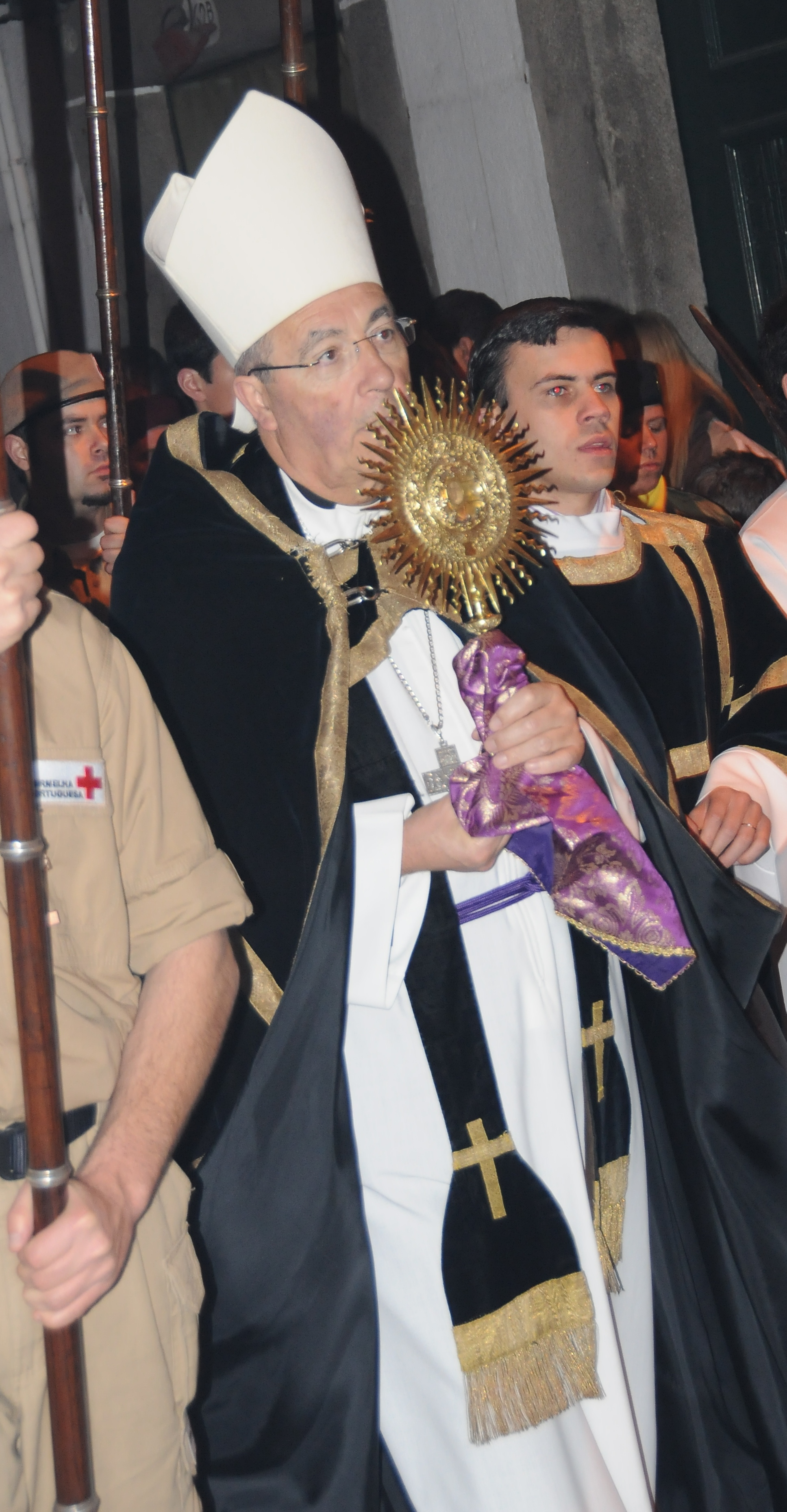 Archbishop of Braga, Jorge Ortiga in a Procession in Braga, during Holy Week.